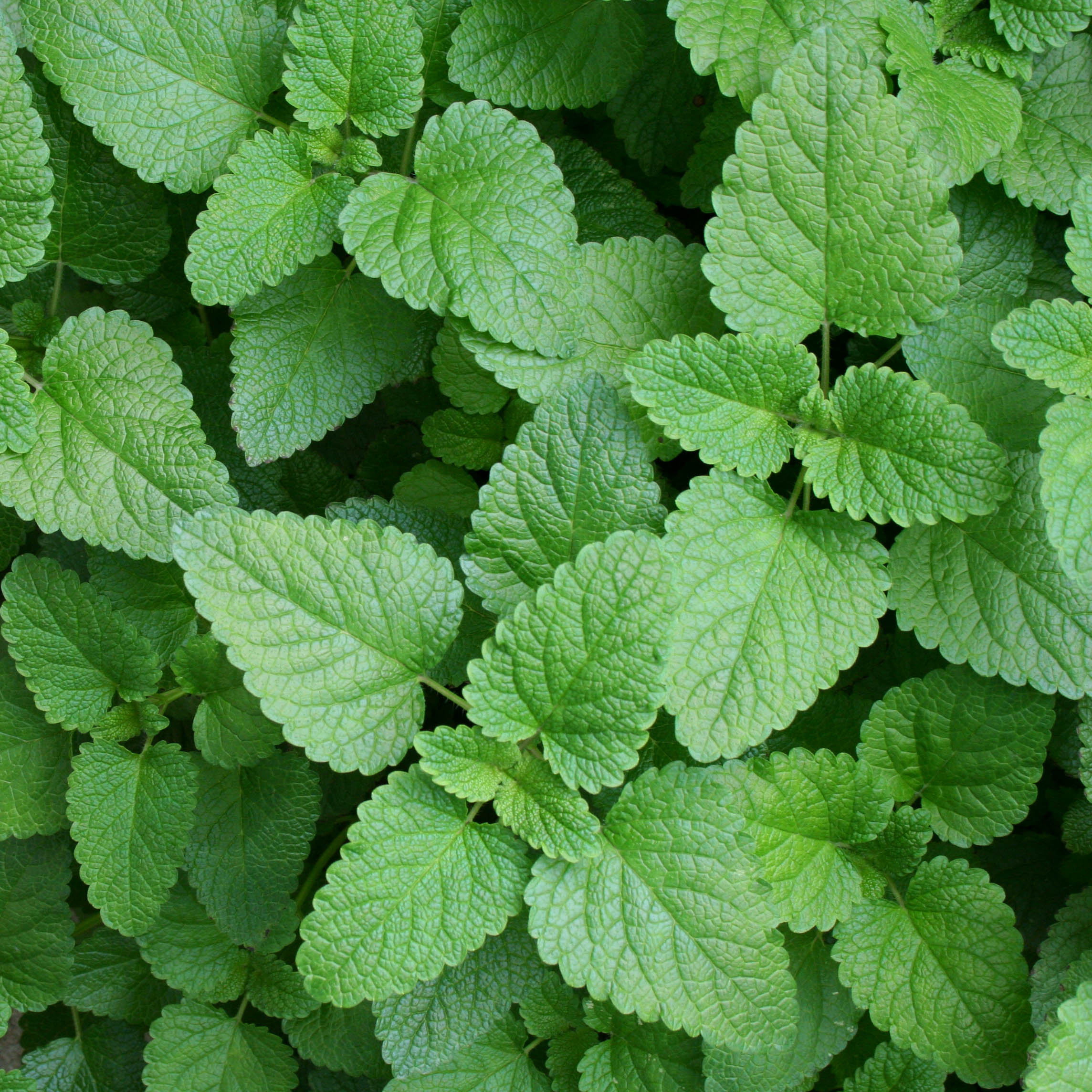 Lemon balm – Melissa officinalis